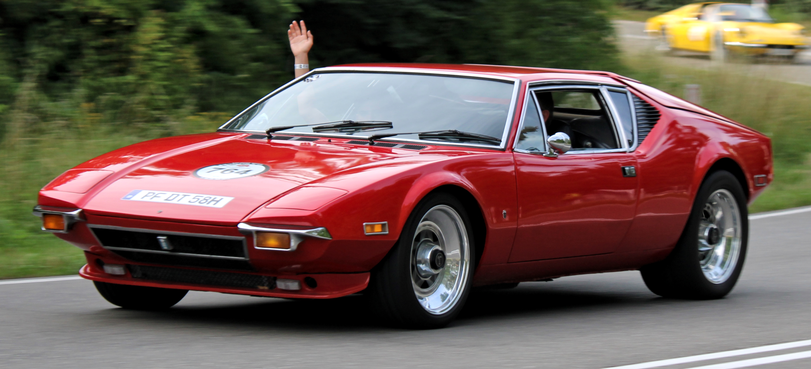 De Tomaso Pantera (1972) at Solitude Revival 2019